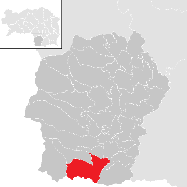 District Deutschlandsberg, Styria, Austria